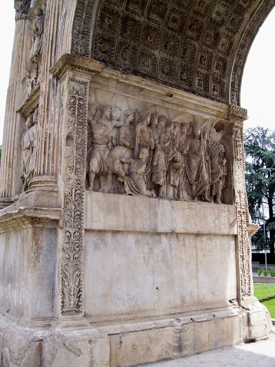 Trajan's Institutio Alimentaria, relief in the Arch of Trajan (Benevento)Inside the Arch